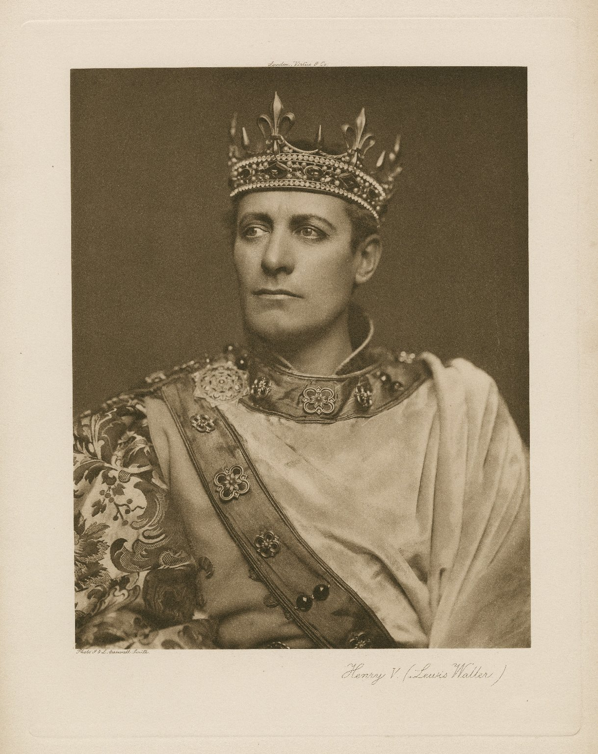 A photograph of Lewis Waller as Henry V, from an early 20th century performance of the play.